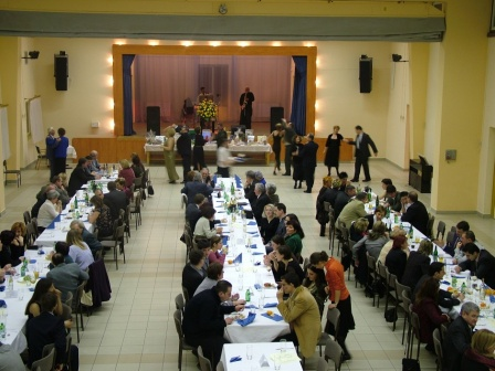 The jubile 150 years